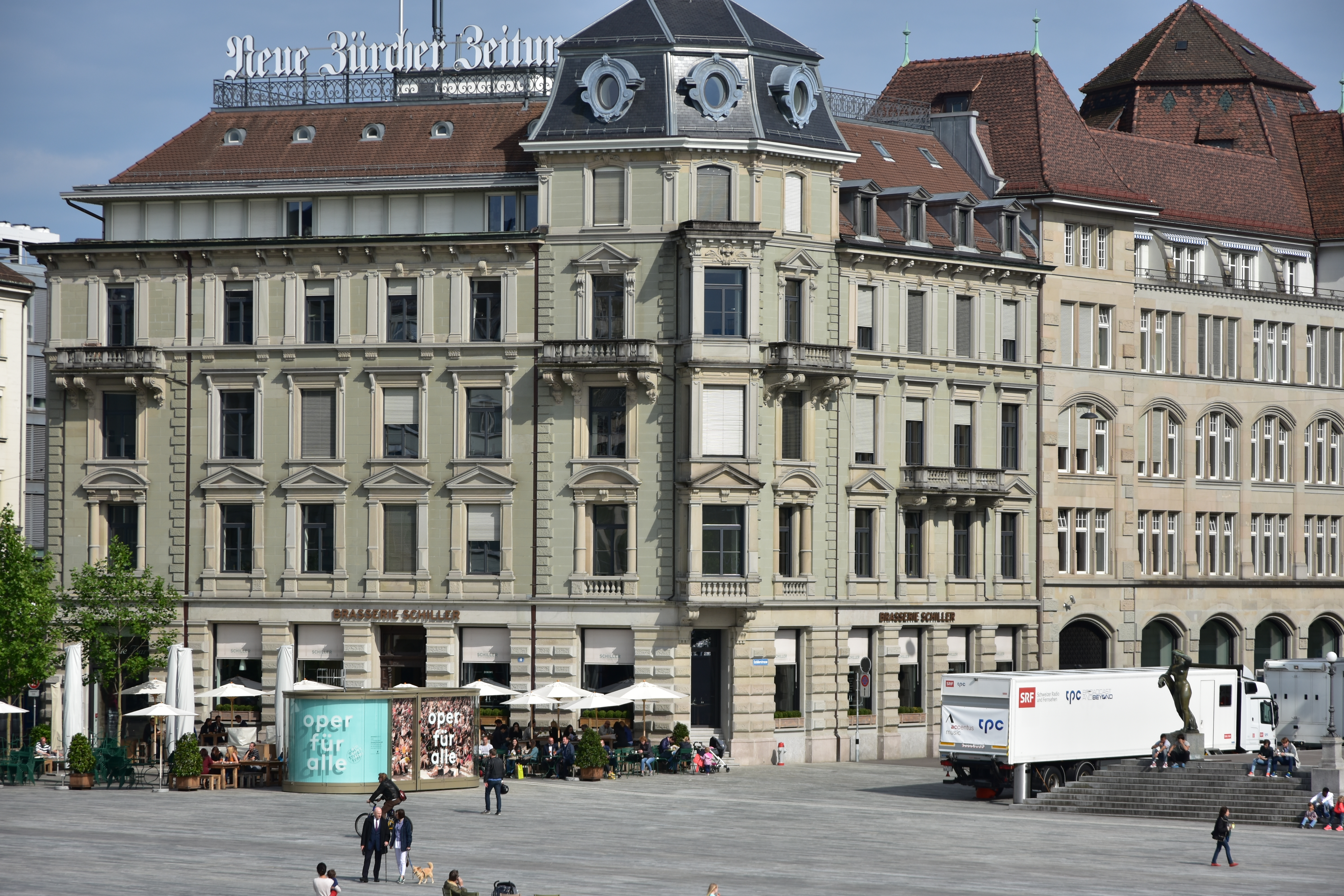 Sechseläutenplatz as seen from the temporarly pedestrian passage towards Utoquai in Zürich